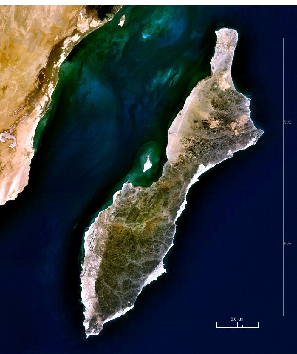 Satellite Image of Masirah Island, Oman